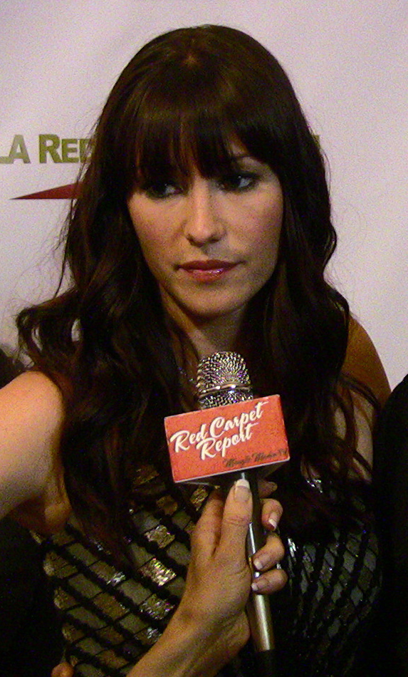 Actress Chyler Leigh at the 2011 Thirst Project Gala Red Carpet.